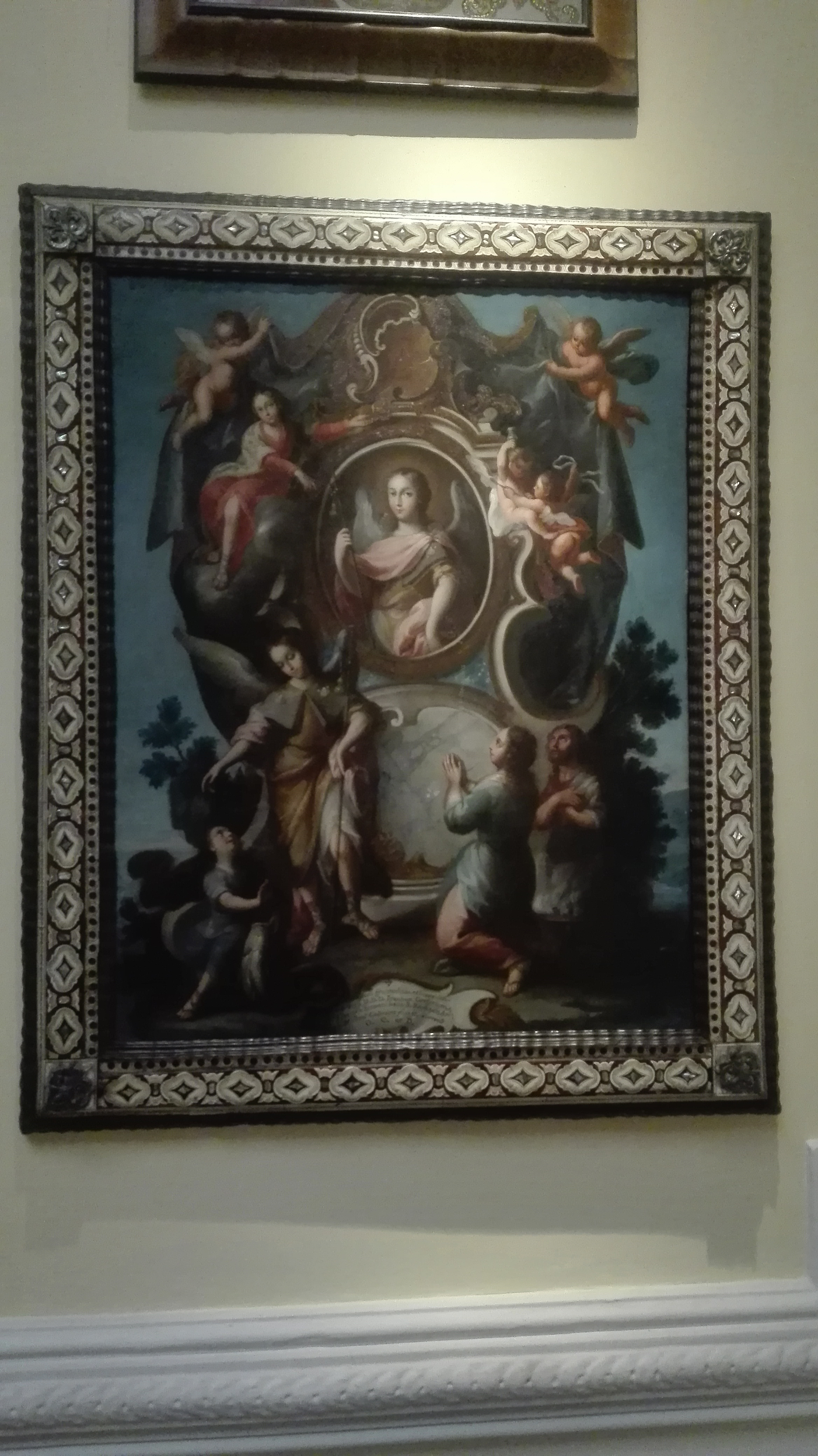 Art works of the private collection of Guillermo Tovar de Teresa, self-educated Mexican historian and chronicler (1956-2013), at Casa Museo Guillermo Tovar de Teresa, where he lived (Valladolid 52, neighborhood Roma, borough Cuauhtémoc, Mexico City).